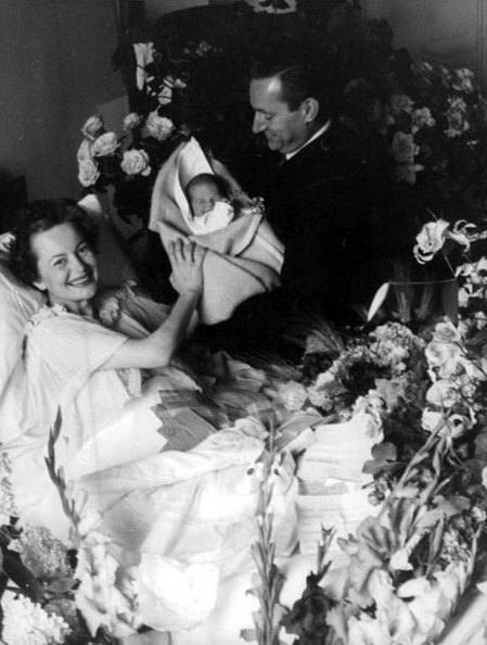 Olivia de Havilland and Pierre Galante with their new-born daughter Gisèle in Paris, July 18, 1956